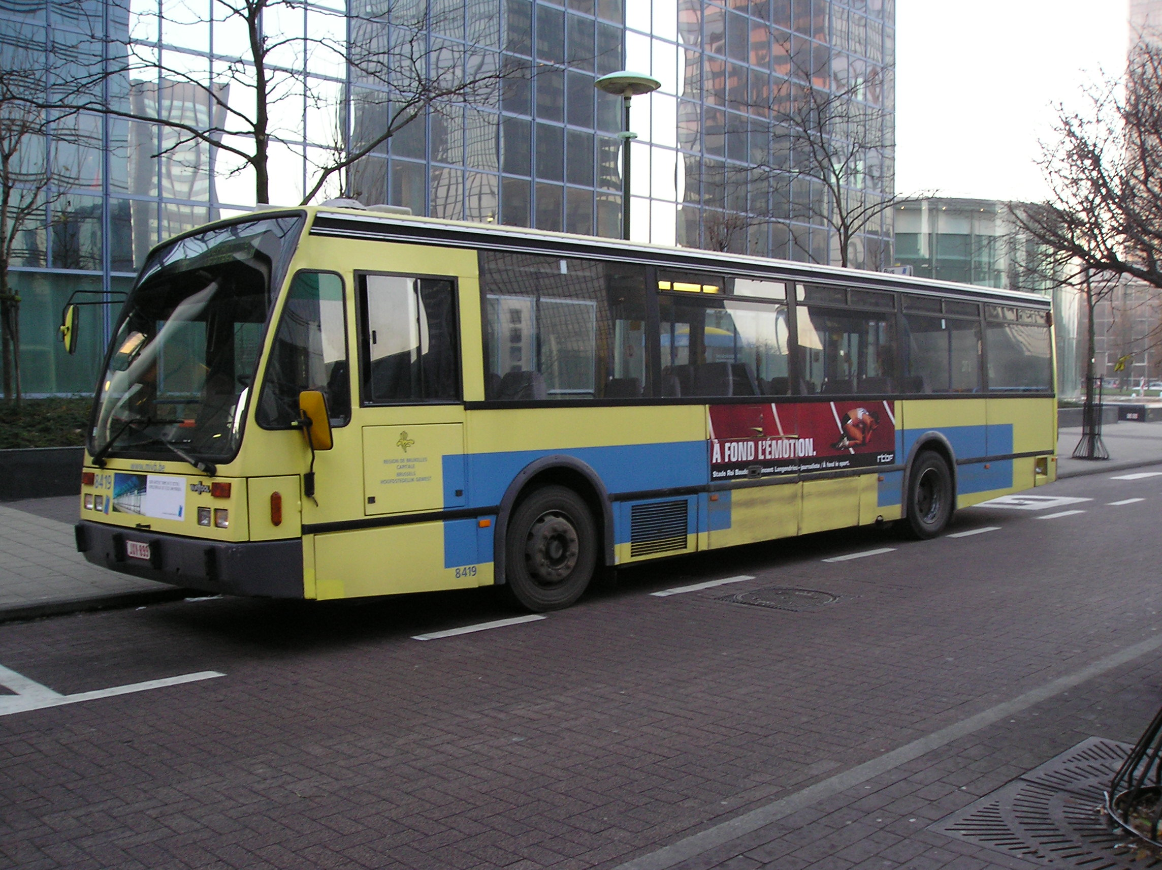 Brussels city bus near Brussels North train station (Dutch:Brussel-Noord